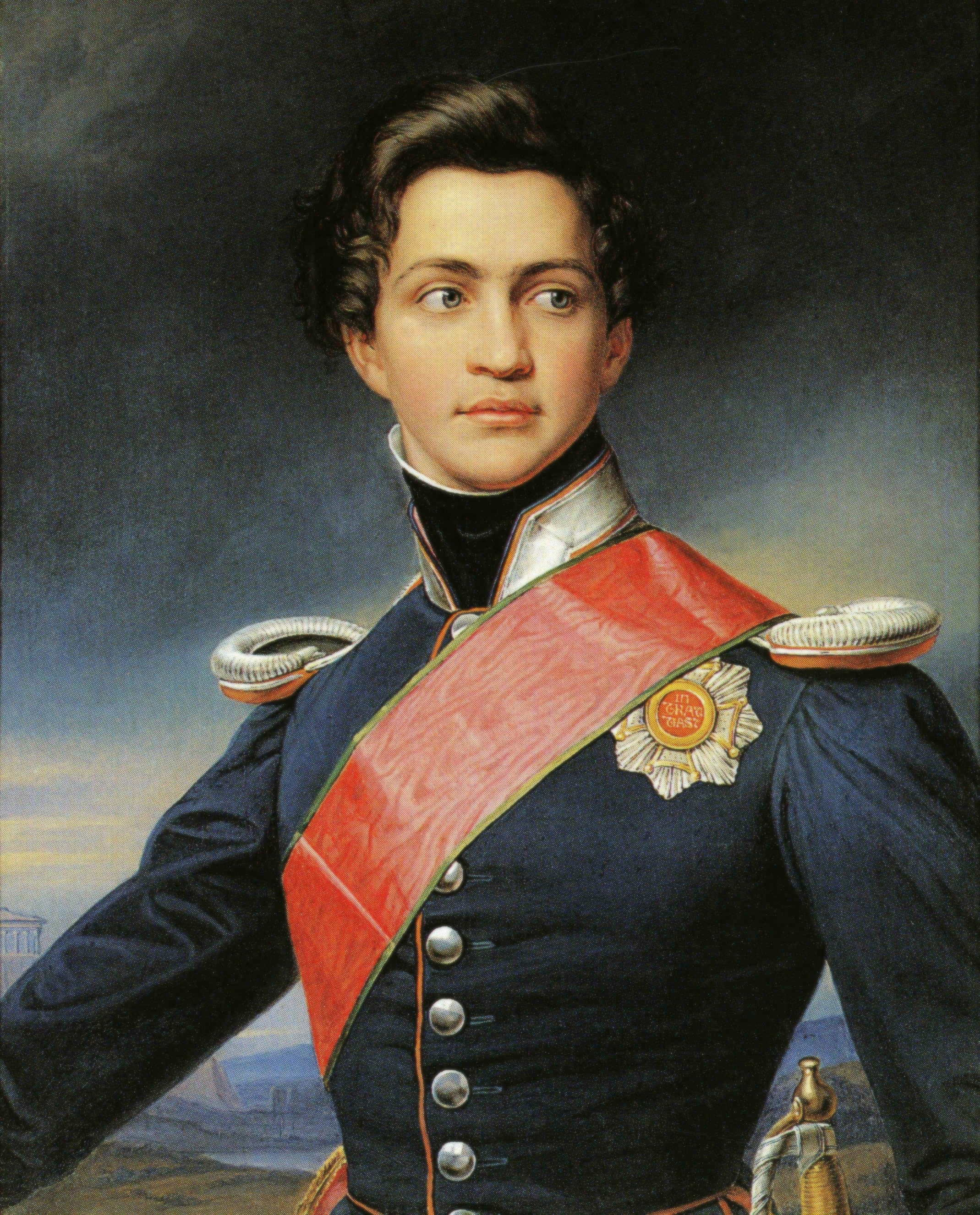 Prinz Octavius of Bavaria, King of Greece; after Joseph Stieler (1781–1858)